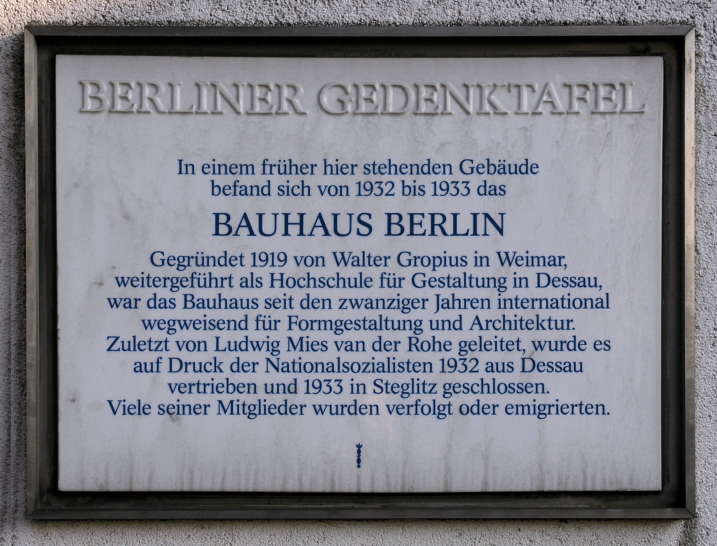 Berlin memorial plaque, Bauhaus Berlin, Birkbuschstraße 49, Berlin-Lankwitz, Germany